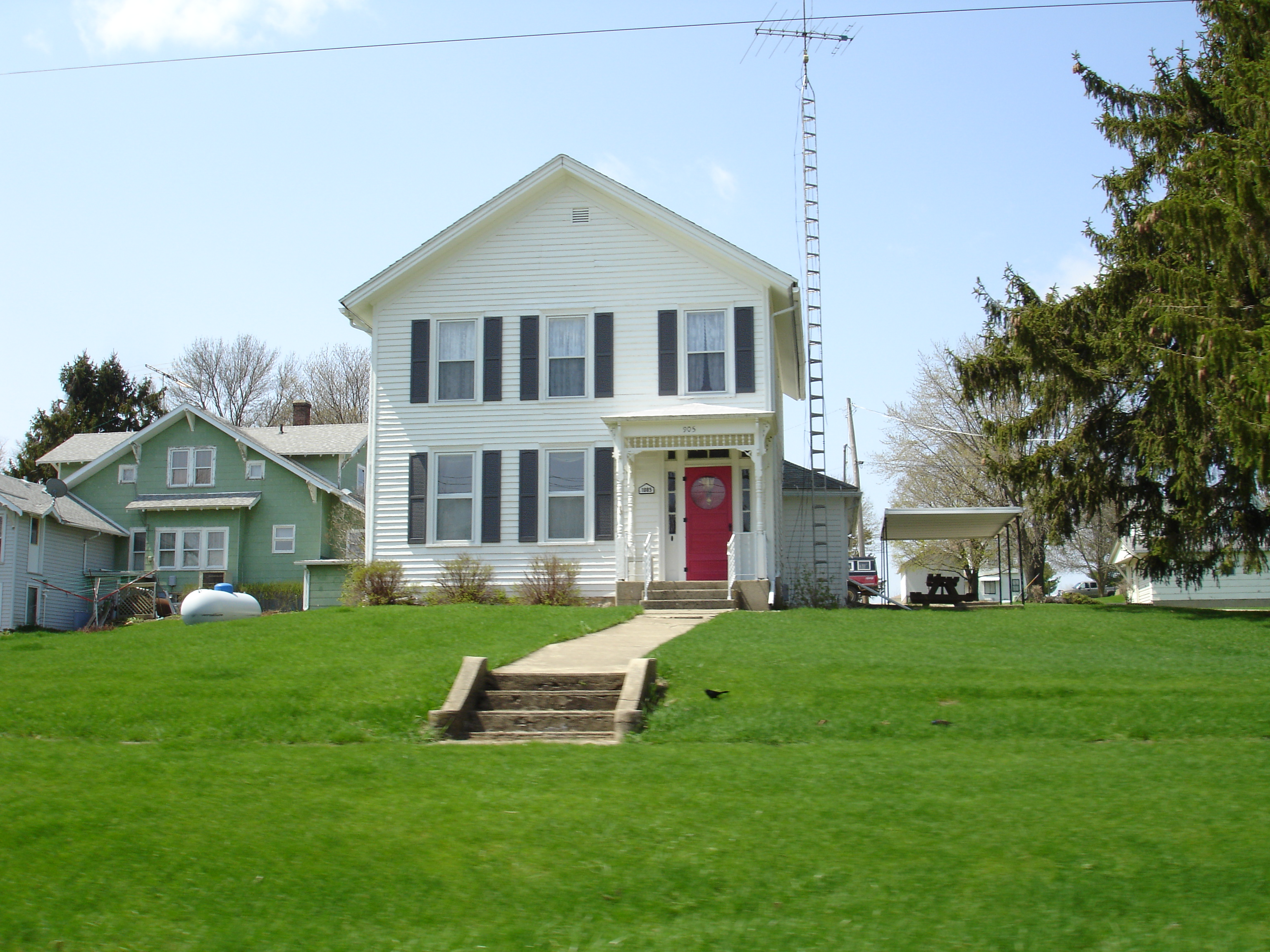 William Atkinson House, a part of the Scales Mound Historic District in Scales Mound, Illinois. Listed on the U.S. National Register of Historic Places.